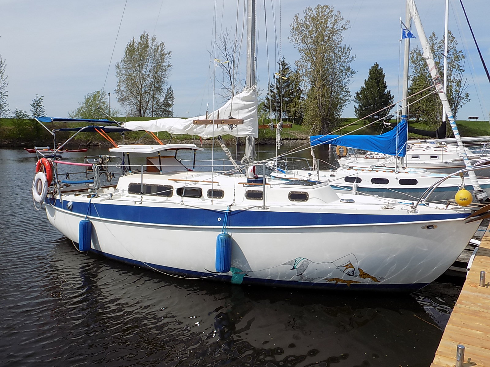 A Discovery 7.9 sailboat named Second Season.